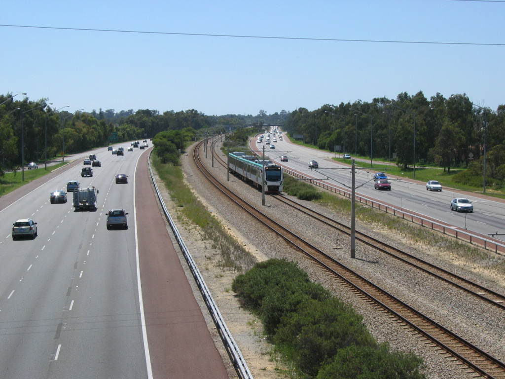 Mitchell Freeway, looking north from Karrinyup Road in the northern suburbs of Perth, Western Australia.